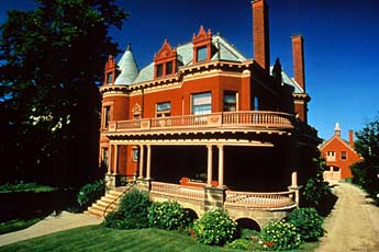 Voigt House, in the Heritage Hill district of Grand Rapids, Michigan Voigt House Victorian Museum (historic house museum) of the Public Museum of Grand Rapids.